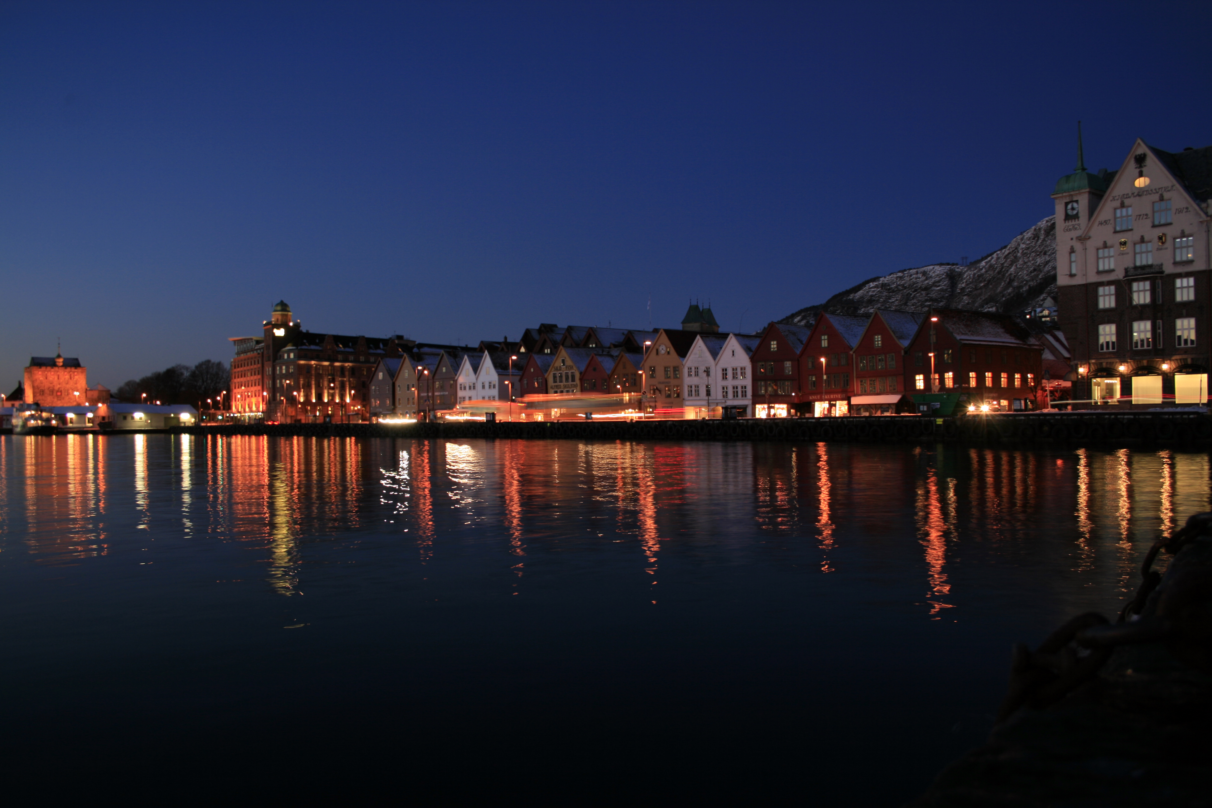 Bergen as seen from the harbour